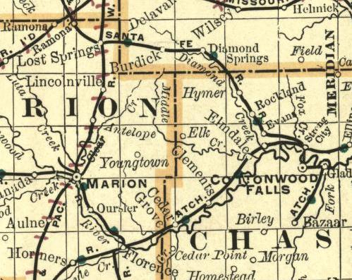 Part of a map of Kansas. Showing the ghost town Elk on the border between Chase County and Marion County. Image from an 1893 Map.